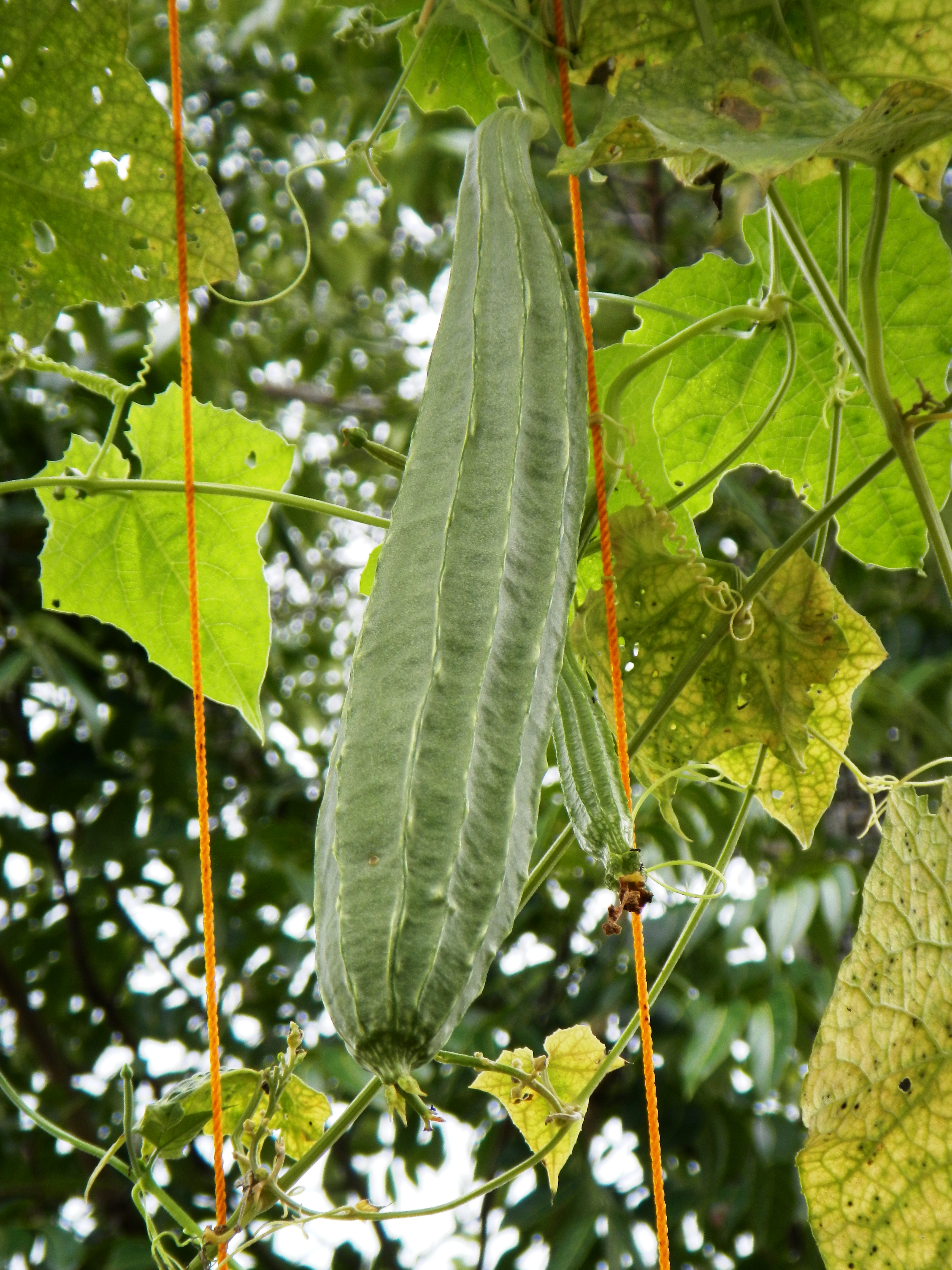 Luffa acutangula (anged luffa, Chinese okra, dish cloth gourd, ridged gourd, sponge gourd, vegetable gourd, strainer vine, ribbed loofah, silky gourd, ridged gourd, silk gourdTagalog: Patola) related is the Luffa aegyptiaca in Vizal San Pablo Elementary School Rural Gardening in Candaba, Pampanga Barangay Vizal San Pablo, Candaba, Pampanga.